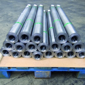 Lead rolls